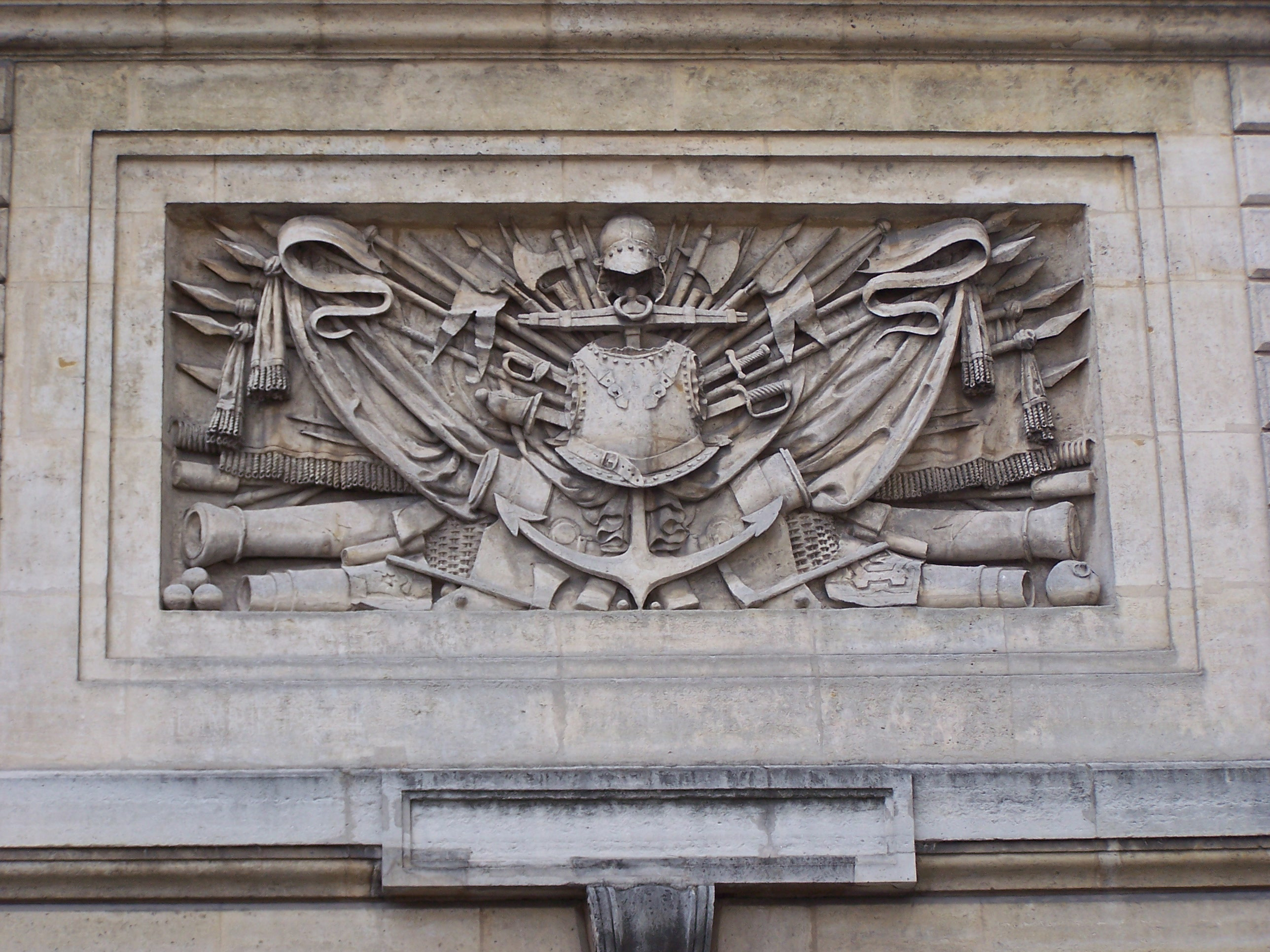 Bas-relief à l'entrée historique de l'école Polytechnique de Paris